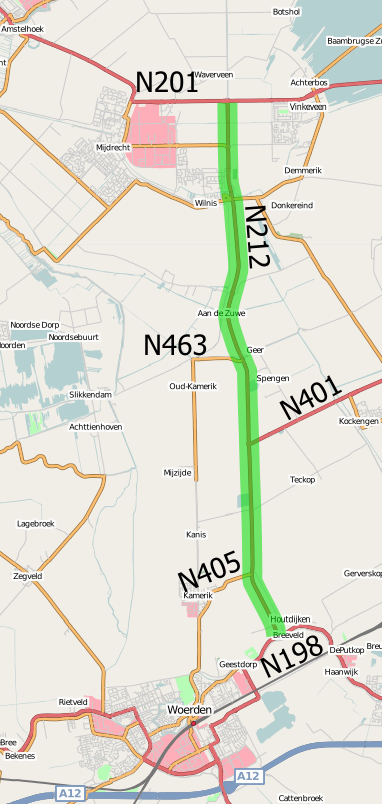 Map of provincial road N212 in the Netherlands. The background map is taken from , the route was drawn on this by me.